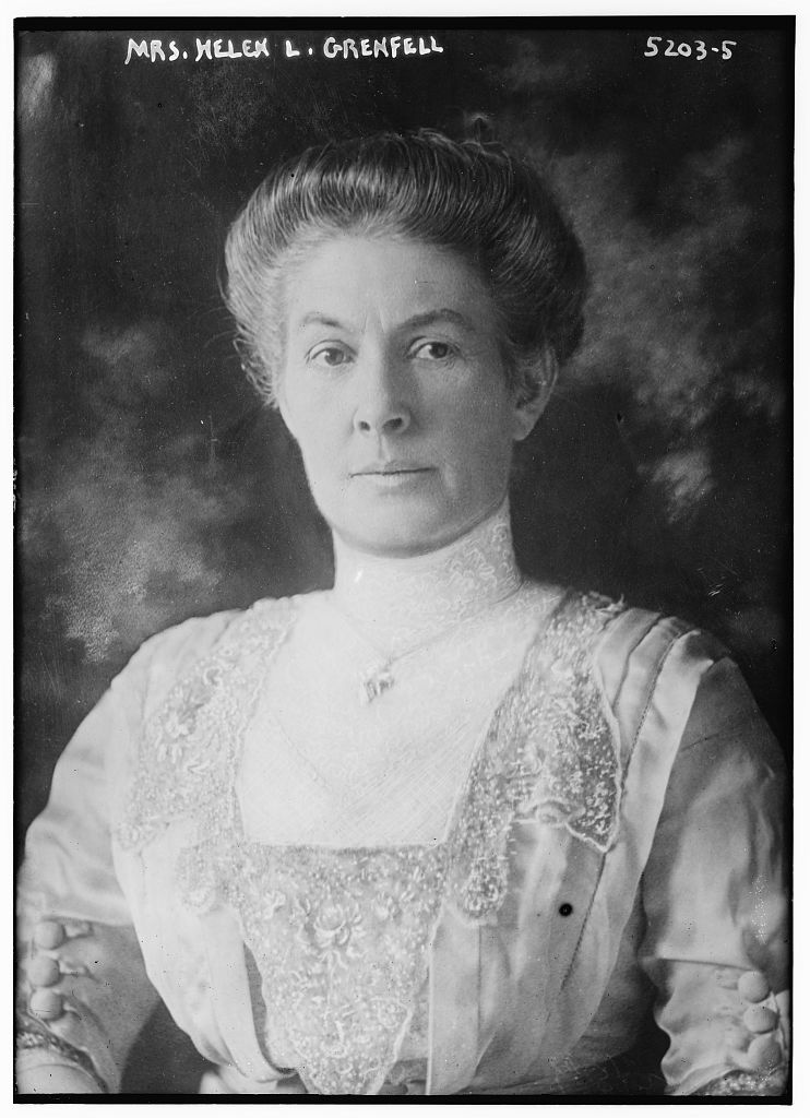 Helen Loring Grenfell circa 1920